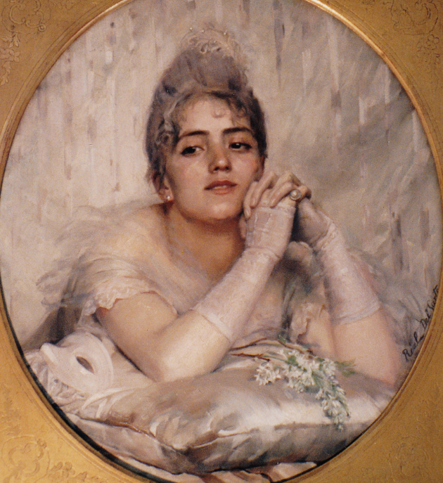 tableau de Magdeleine Real del Sarte